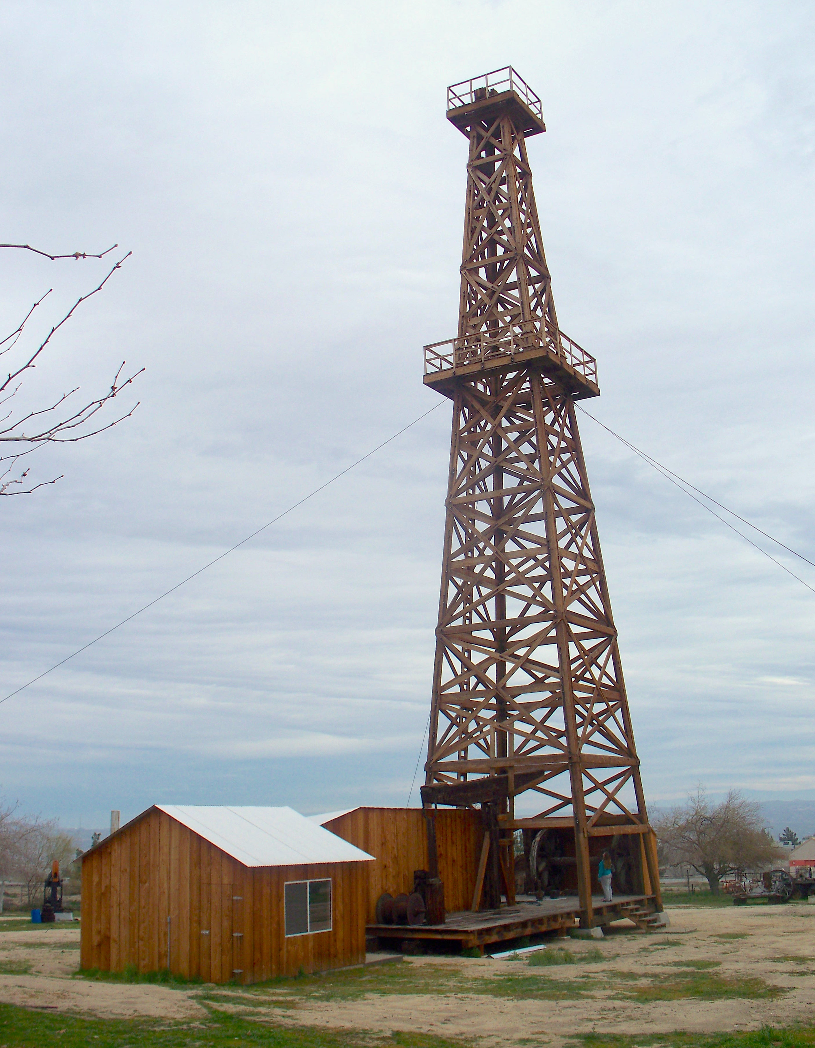 Drilled in 1917 and producing until the 1980's, the wooden derrick was the last of its kind in Kern County. In 1974 Jameson #17 was scheduled to be torn down too. The local American Association of University Women and some dedicated people organized and with the Jameson Company donating the derrick and 3 acres of land, the West Kern Oil Museum, Inc. was born. As the years have gone by, additional acreage and exhibits have been added to the Museum but always at the center was the wooden derrick. November 2005 - The Dedication of the new Derrick on Friday, October 21, was a wonderful celebration. Those taking part in the program included Pete Gianopulos, master of ceremonies, Larry Peahl, historian and member of the very first Museum Board of Directors, Ron Bracken, current Board chairman, Don Kinzel and Keith Bracke, the men who built the new derrick, and Dorothy Gardner, Museum treasurer and Board member. Huell Howser, of Public TV Channel KCET in Los Angeles, was a special guest and he, along with about 300 others, enjoyed the beautiful day, the happy crowd, the program, ribbon cutting, and ice cream social that followed. Mr. Howser and Cameron (his camera man) recorded several interviews and pictures of the derrick. they will be included in a program to be shown on KCET sometime in January. Sorry, we don't yet know the exact date. Every night during the ten days of Oildorado, the derrick was lit from the floor up with a very bright single bulb halogen light. It was indeed a spectacular sight.